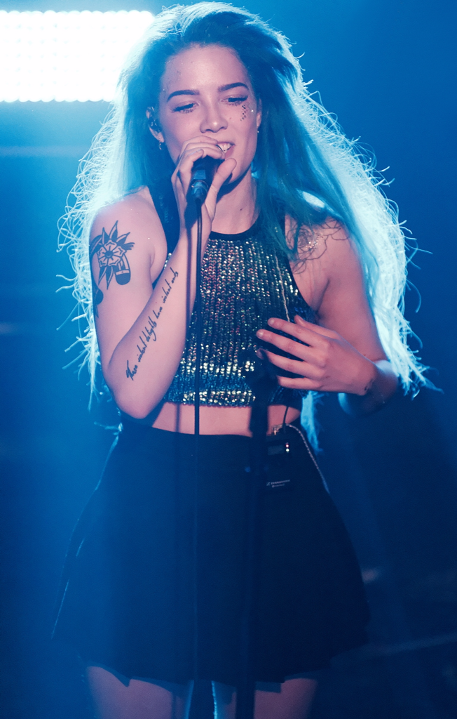 Halsey performing live at The Troubadour in Los Angeles California on Wednesday March 11th, 2015. This was the first official stop on Halsey's first-ever headlining tour.